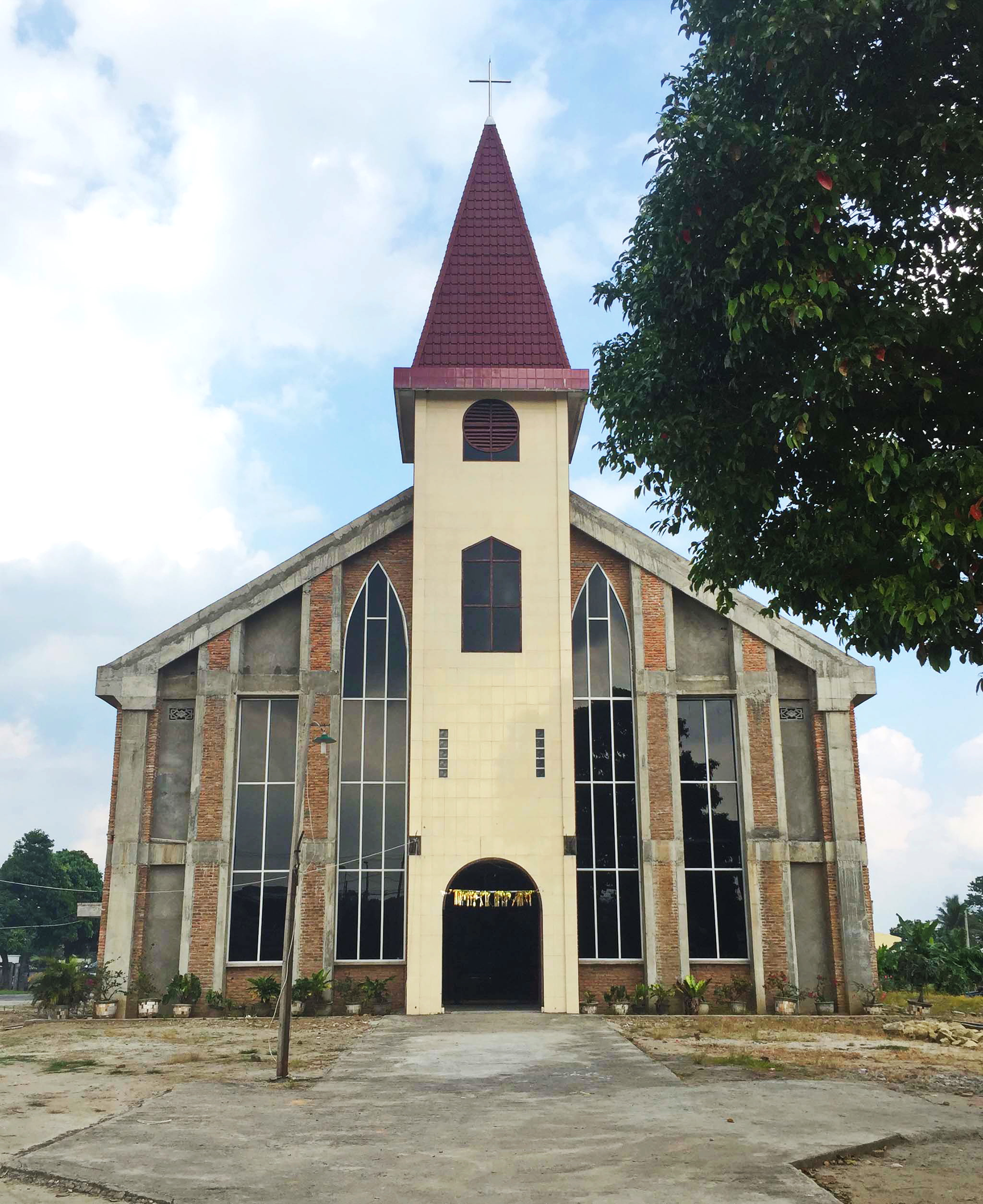 HKBP Tapian Nauli, Res. Tapian Nauli Church in Sukaraja, Siantar Marihat, Pematangsiantar